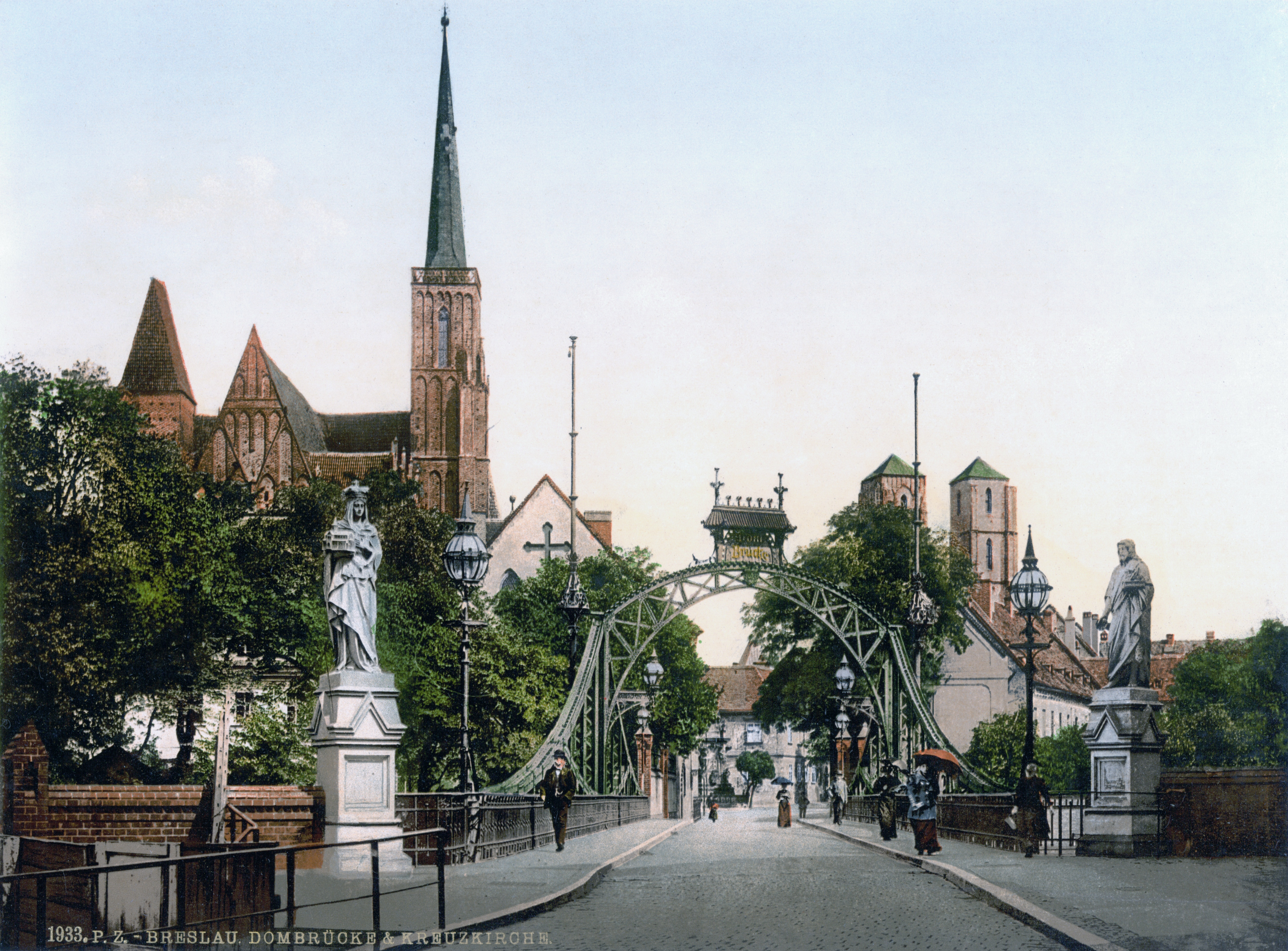 Church Bridge, Breslau, Silesia, Germany (i.e., Wrocław, Poland)